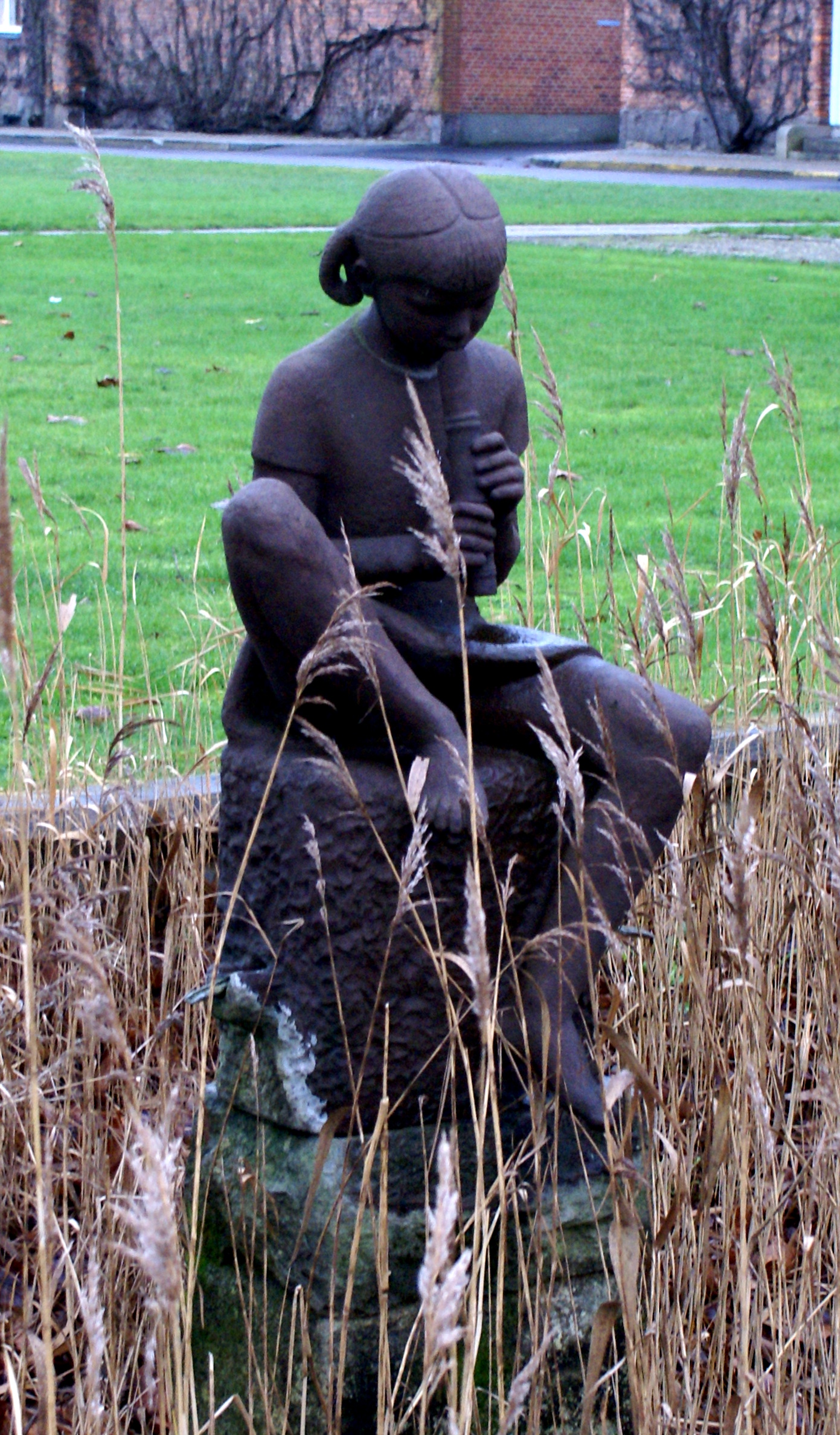 The Flutenist. Placed in Grønnegård.